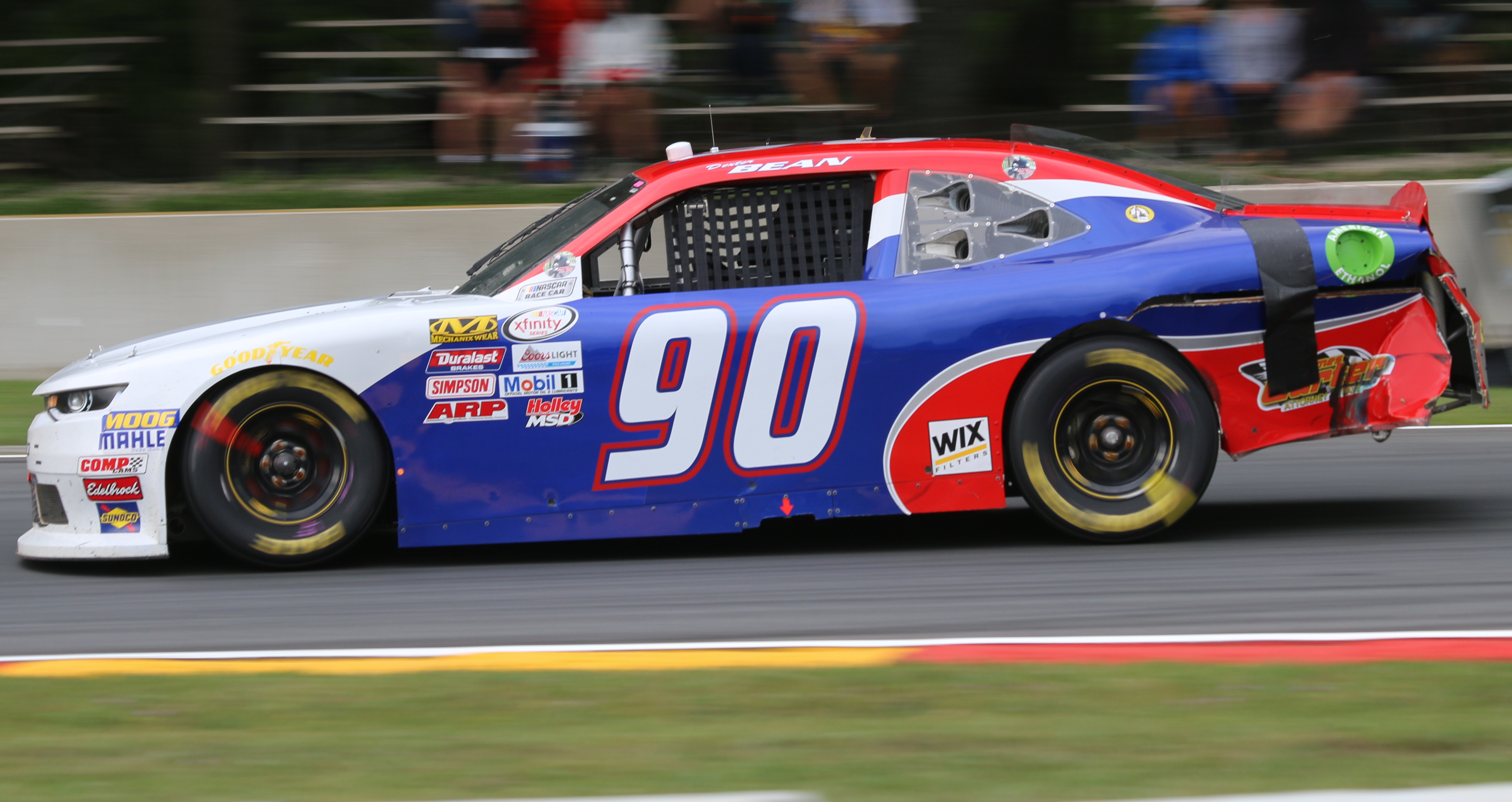 The Chevrolet Camaro of Dexter Bean at the NASCAR Xfinity Series Johnsonville 180.